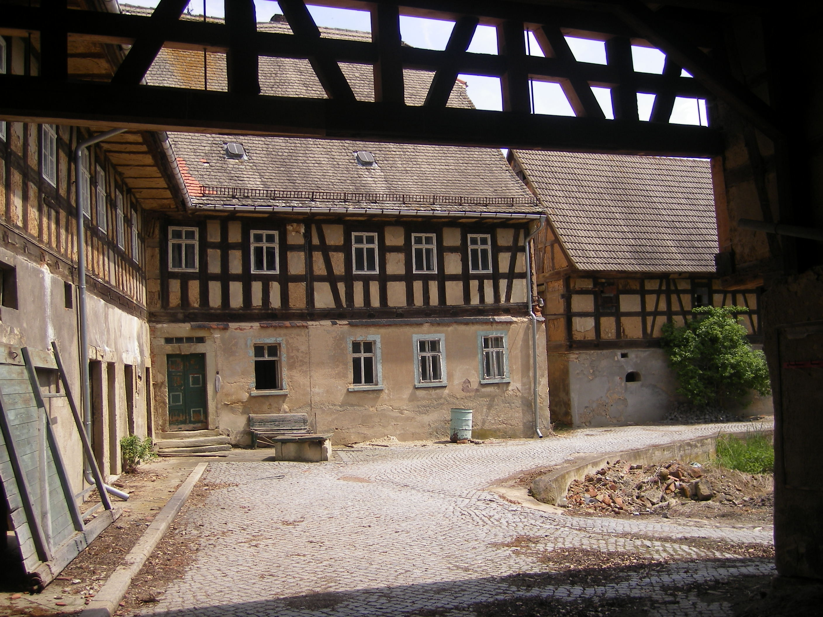 Heitsch Estate in Breesen, district of Starkenberg near Altenburg/Thuringia (Germany)